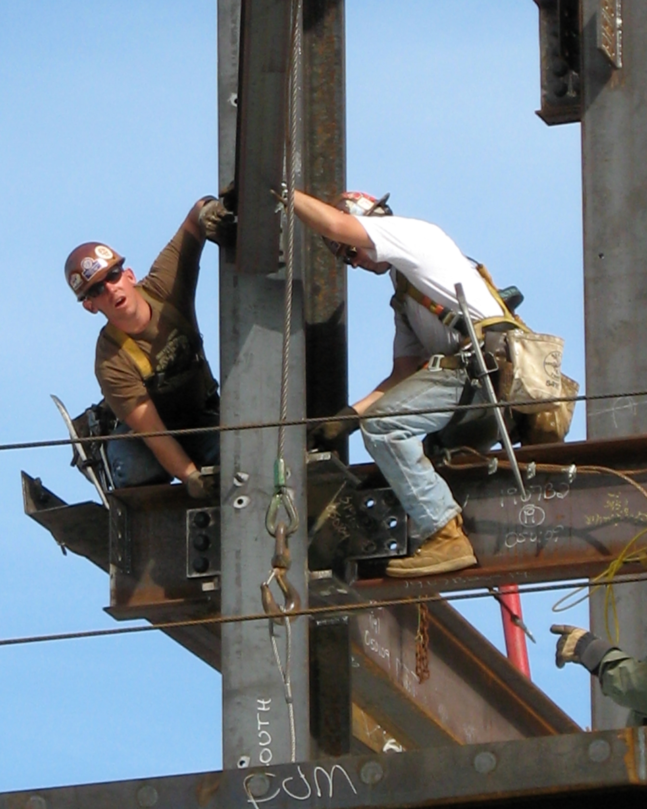 Ironworkers surprised by photographer, while erecting the steel frame of a new building, at the Massachusetts General Hospital, USA.